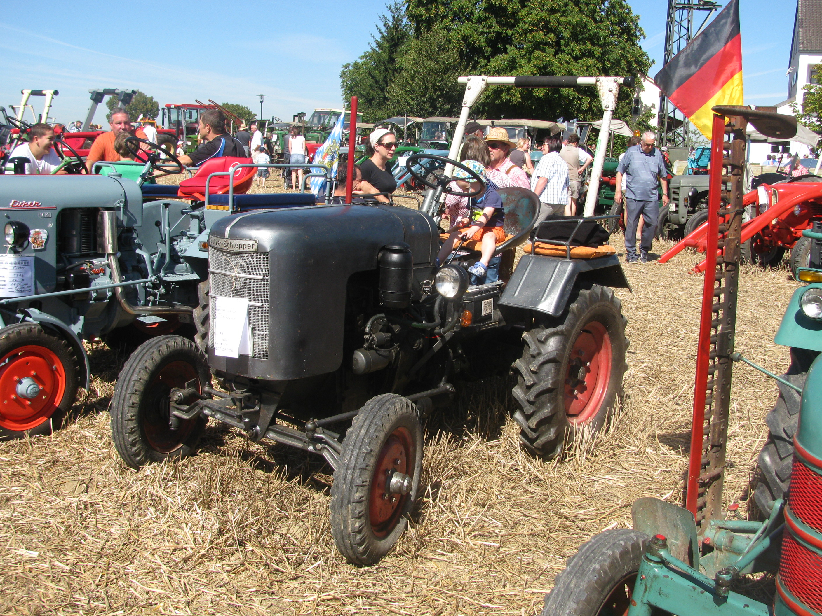 Sulzer-Schlepper from 1951. 15 hp, 2 010 cm³. Bulldogtreffen 2012, Markt Indersdorf, Bavaria, Germany.